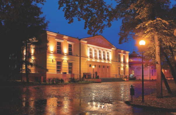 Zdrojowy Animation Theatre